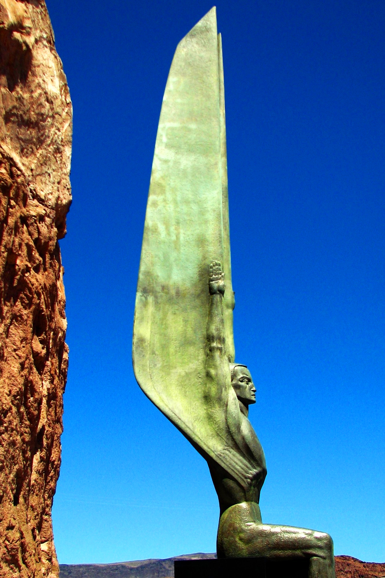 One of two "Winged Figures of the Republic" by Oskar J.W. Hansen, part of the monument of dedication on the Nevada side of the dam.[22].